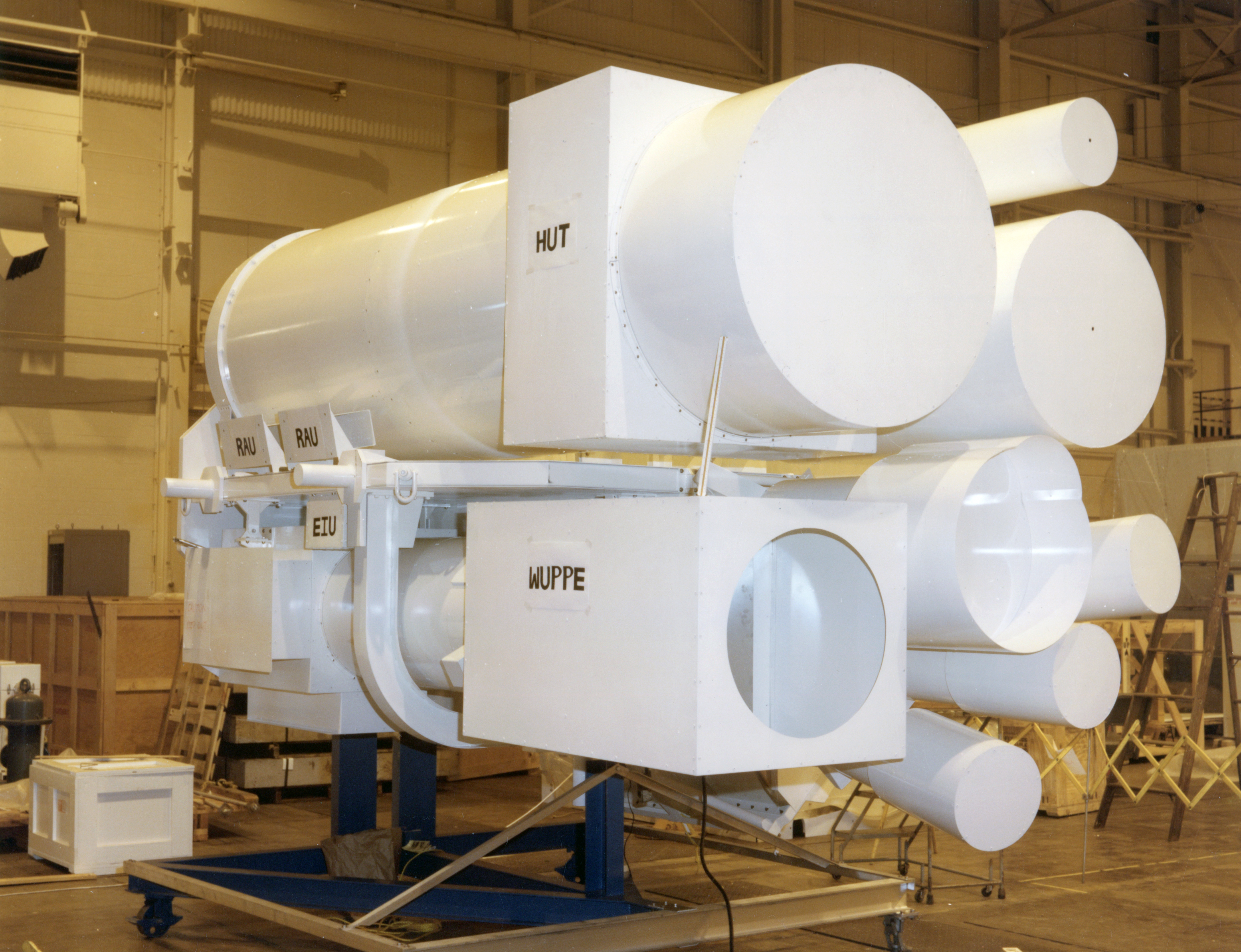 Full-scale moclup of the ASTRO-1 in Building 4708 by NASA photographer C.I. Thornton.